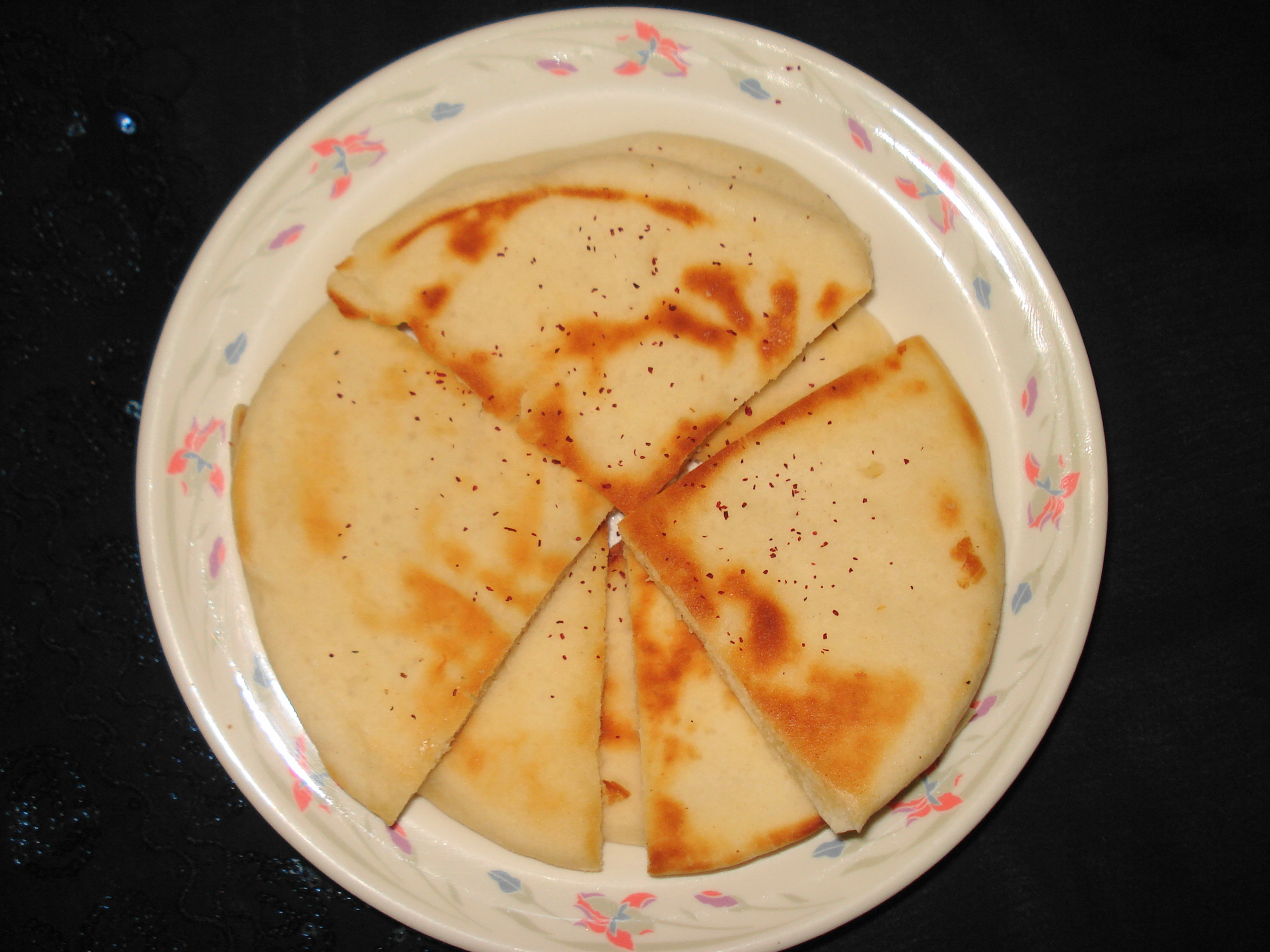 Pita Bread